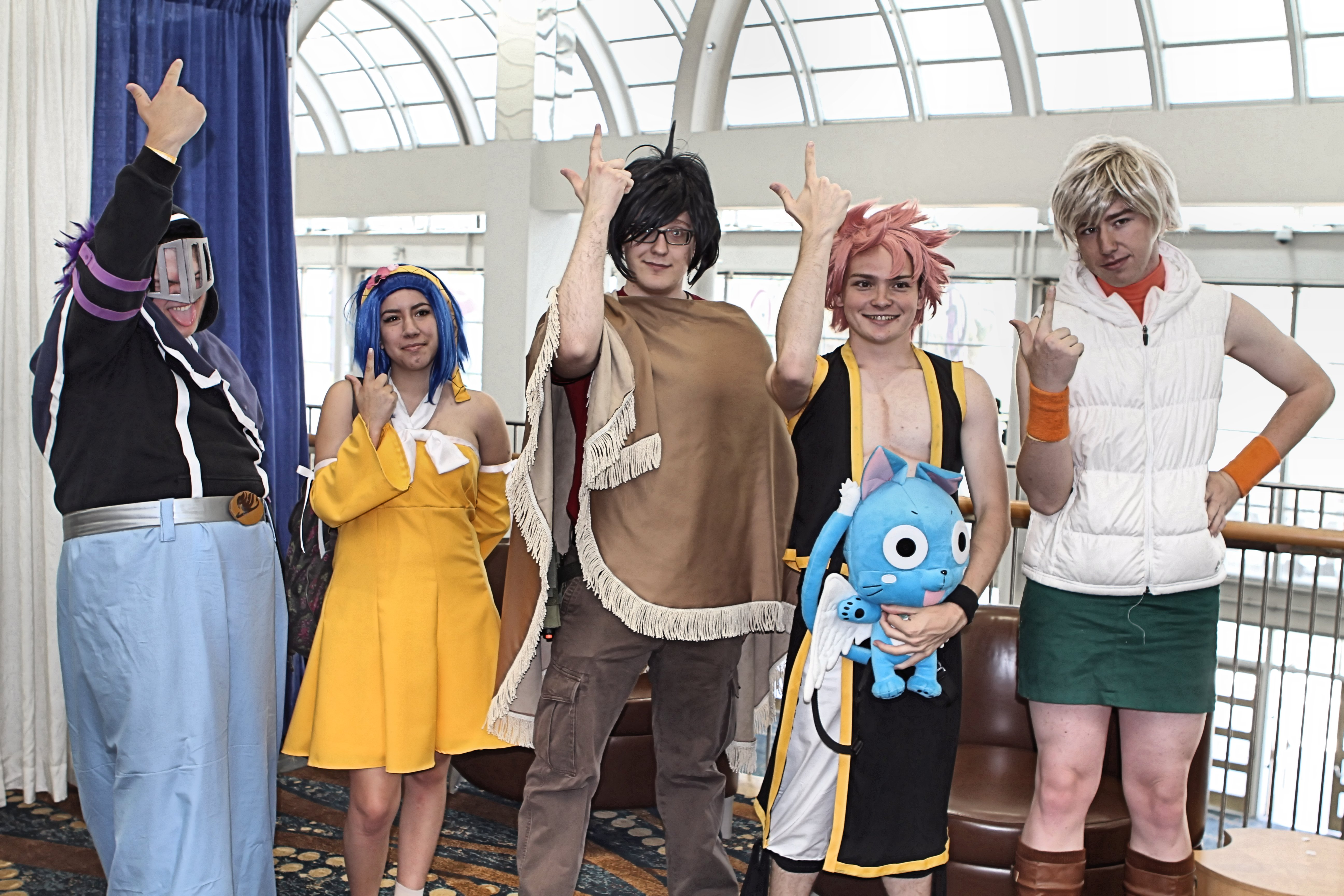 Cosplay at Long Beach Comic Expo 2014.